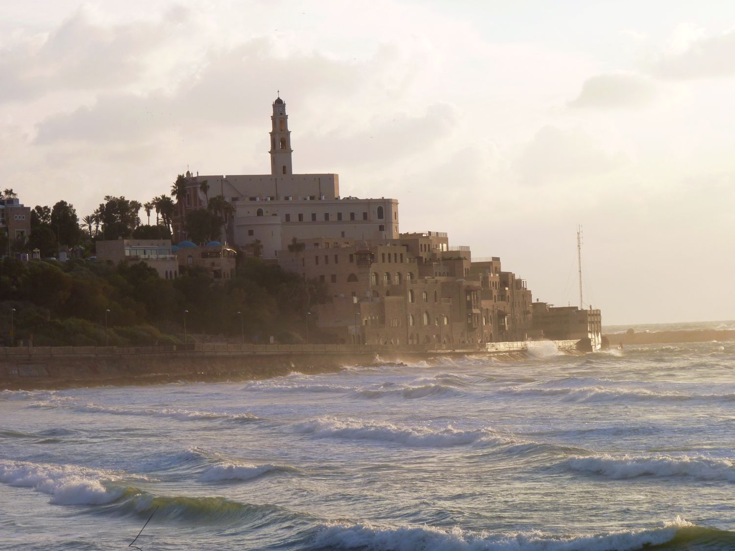 Jaffa, Tel Aviv-Jaffa, Israel